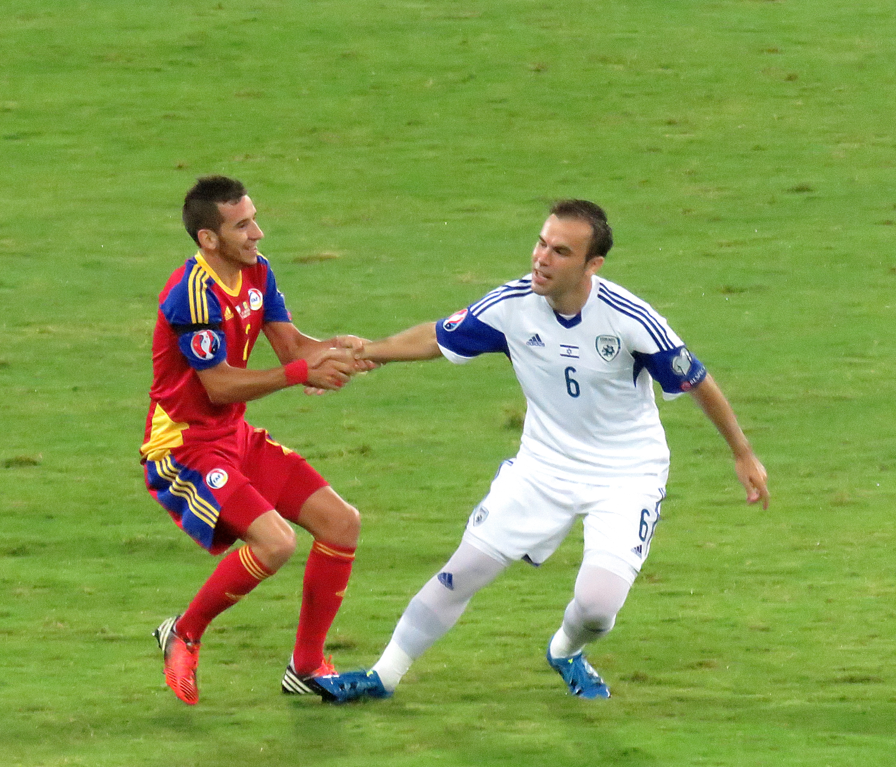 Israel vs. Andorra - September 3, 2015